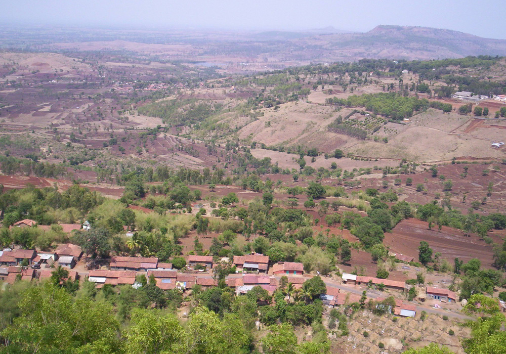 Panhala, Maharashtra, India